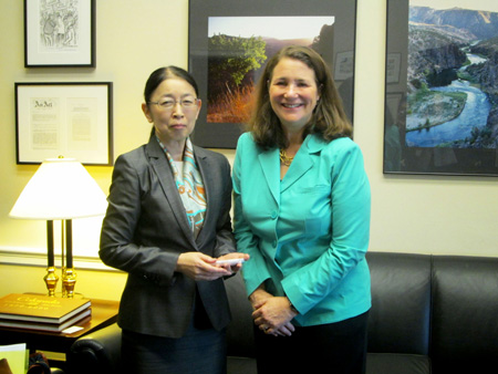 Atsuko Muraki met with Diana DeGette at Rayburn House Office Building.